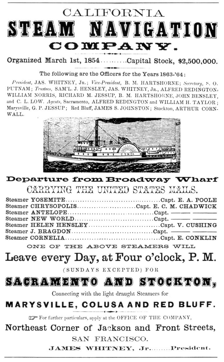 Advertisement published 1863 in the San Francisco Directory for the California Steam Navigation Company.